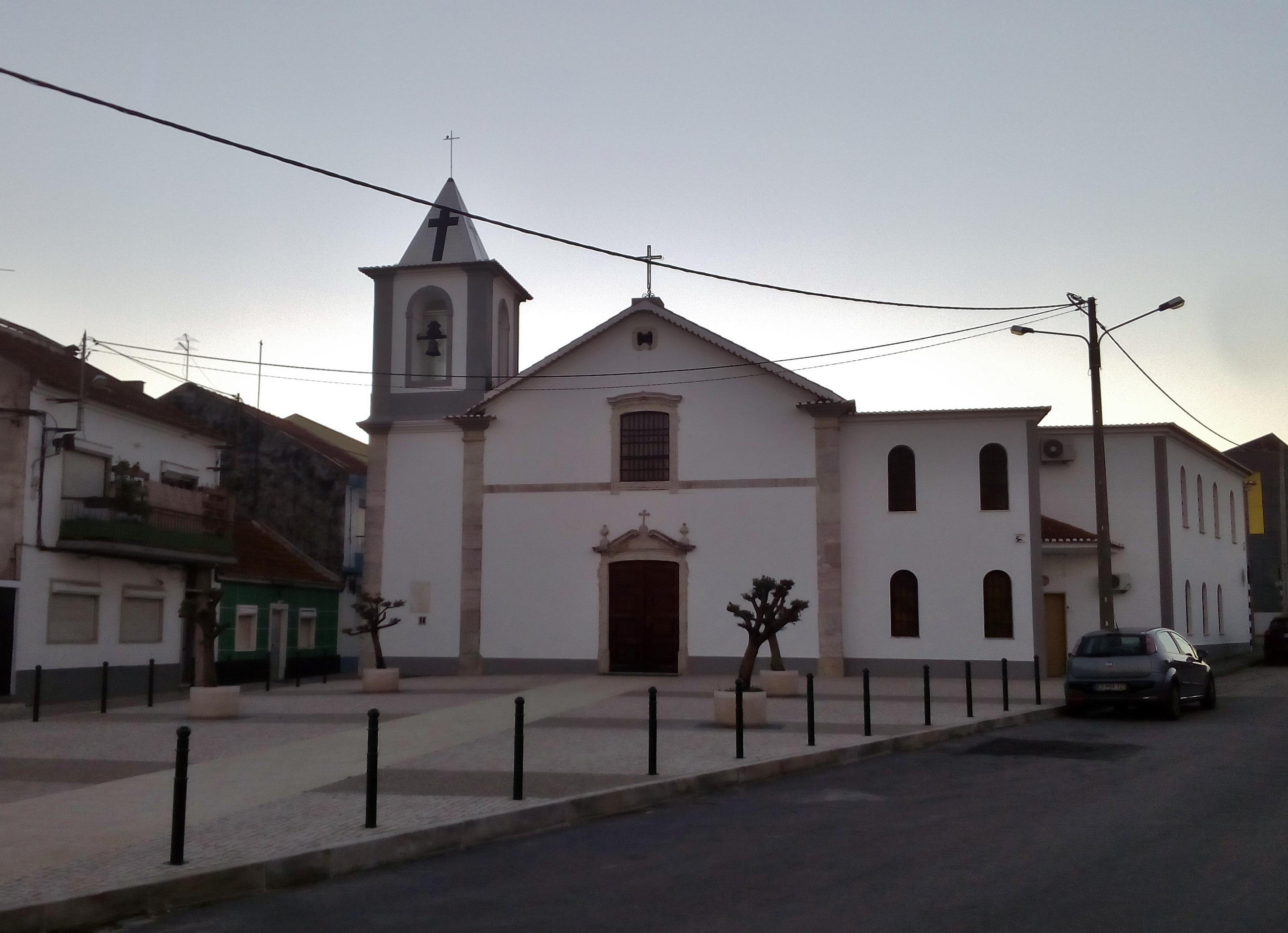 Church of Nossa Senhora da Graça (Our Lady of Grace), in Corroios, Seixal, Portugal.